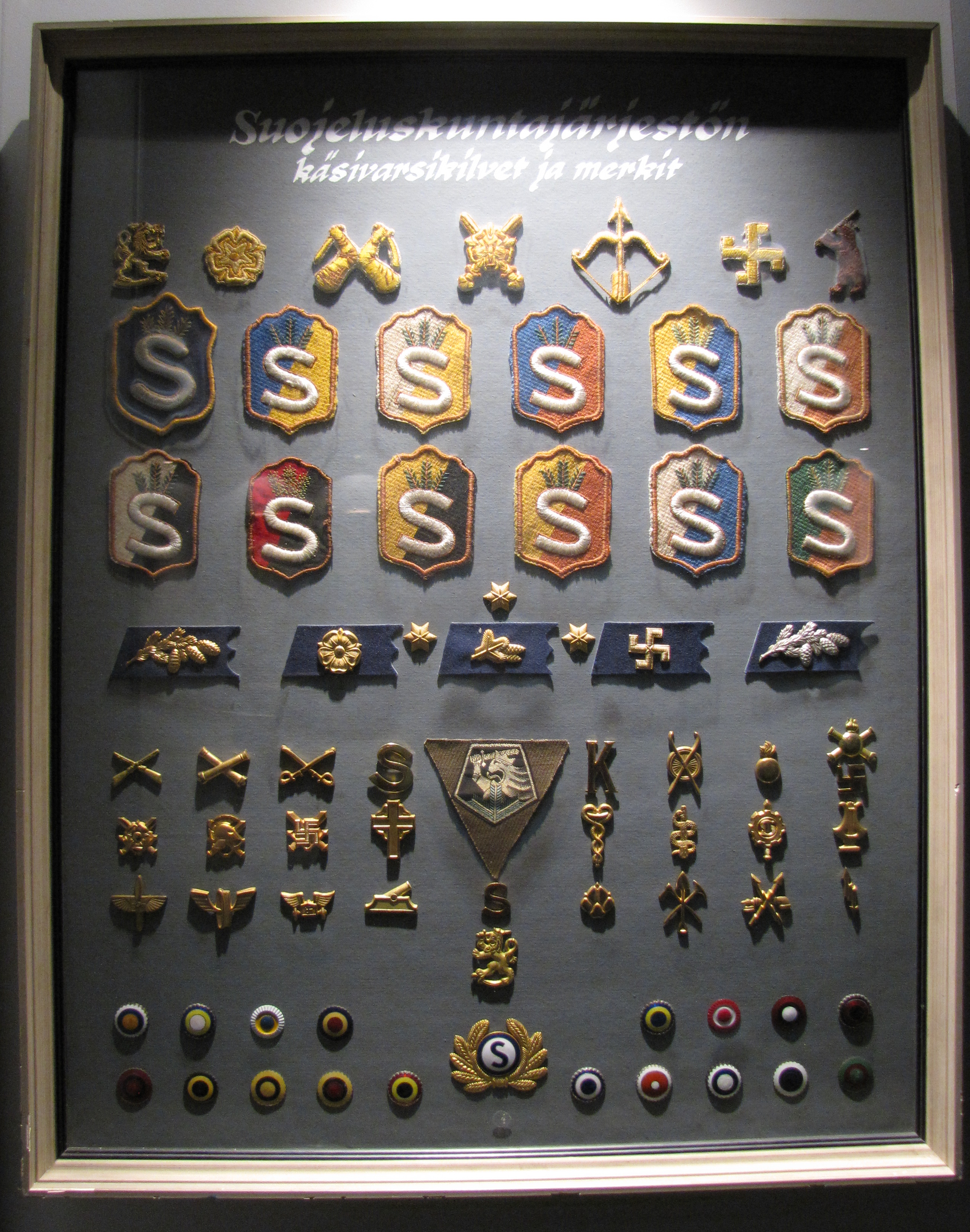 Finnish civil guard shoulder patches and insignia. Photographed in the "Winter War - 70 years" exhibition in the Military Museum of Finland.